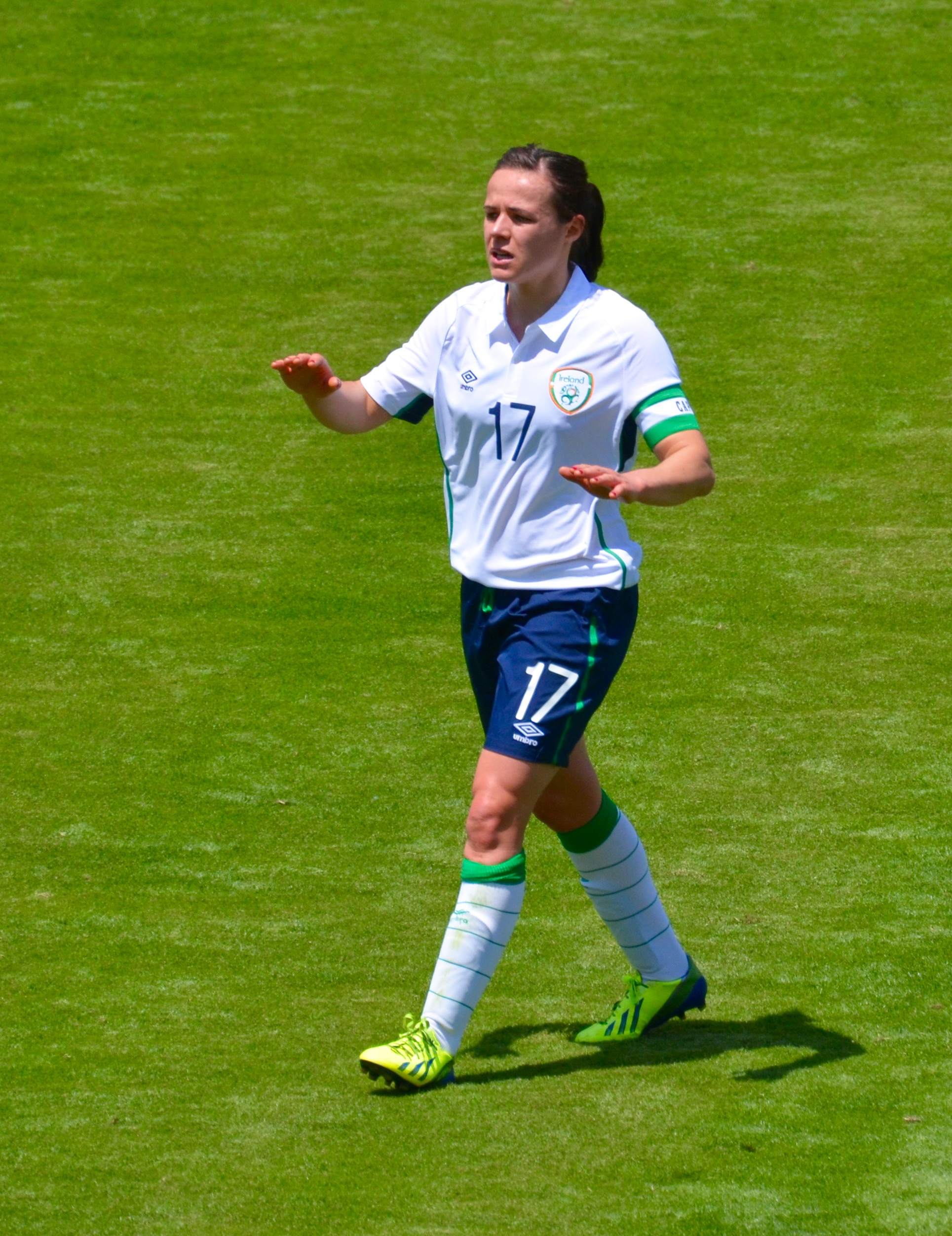 Aine O’Gorman playing for the Republic of Ireland and wearing the captain's arm band. In San Jose, California, on 10 May 2015.